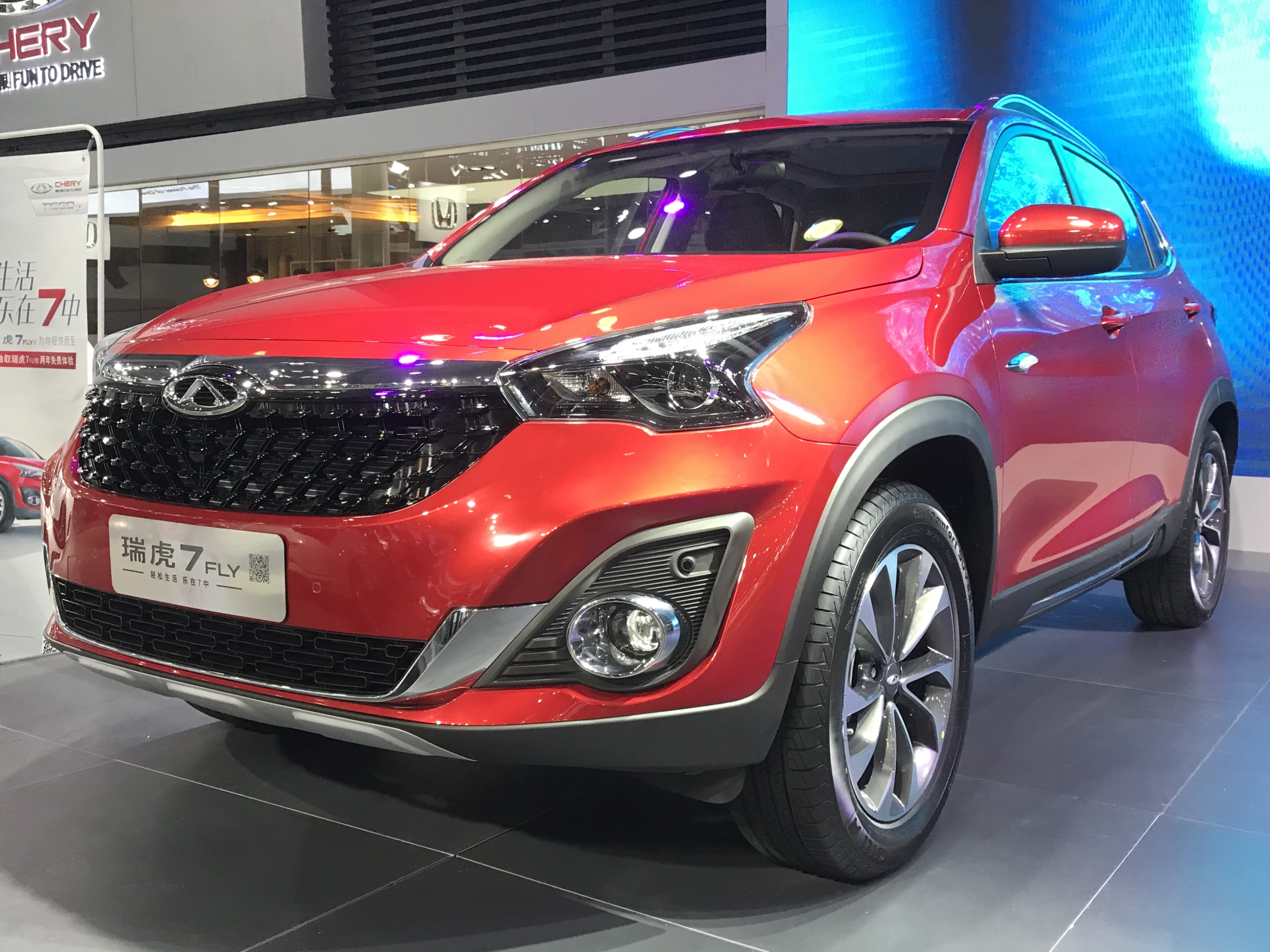 Chery Tiggo 7 Fly front